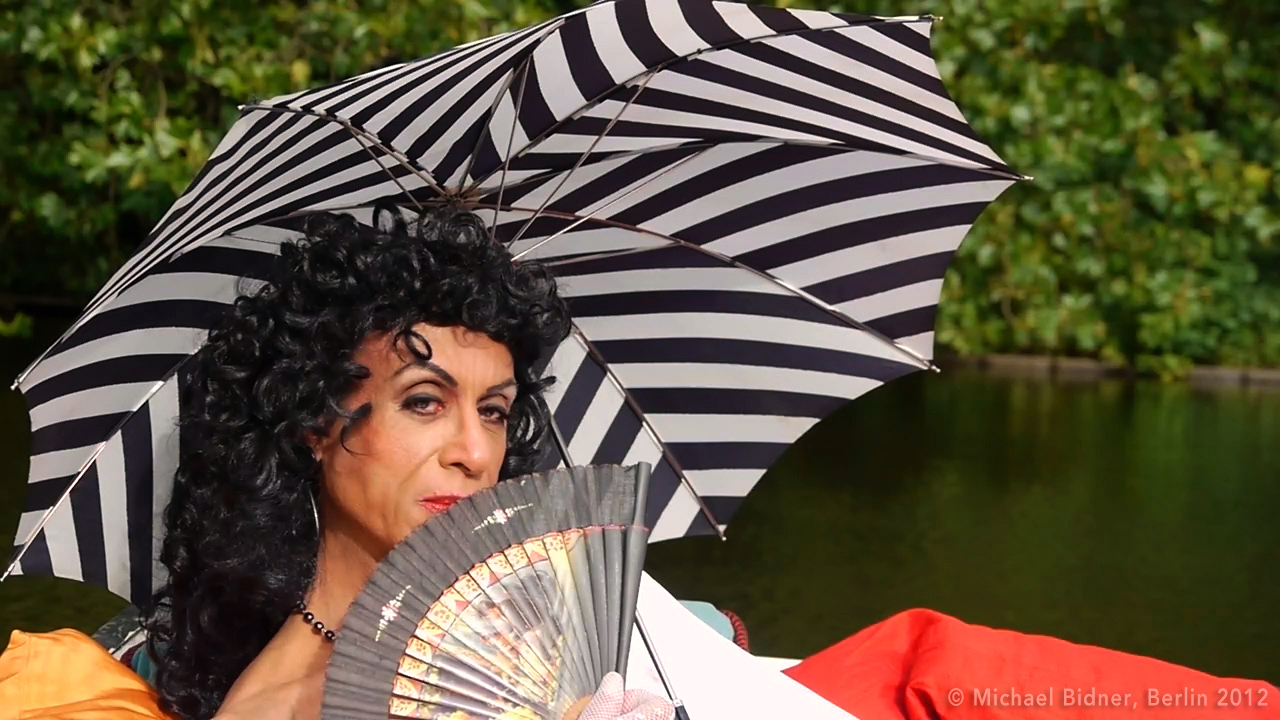 Still from the short film "A Lazy Summer Afternoon with Mario Montez" by John Heys and Michael Bidner, Berlin 2011